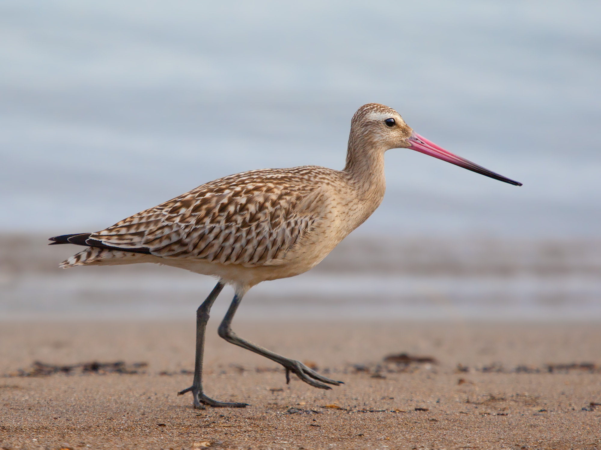 Bar-tailed Godwit，Limosa lapponica.Place:Hokkaido,Japan.